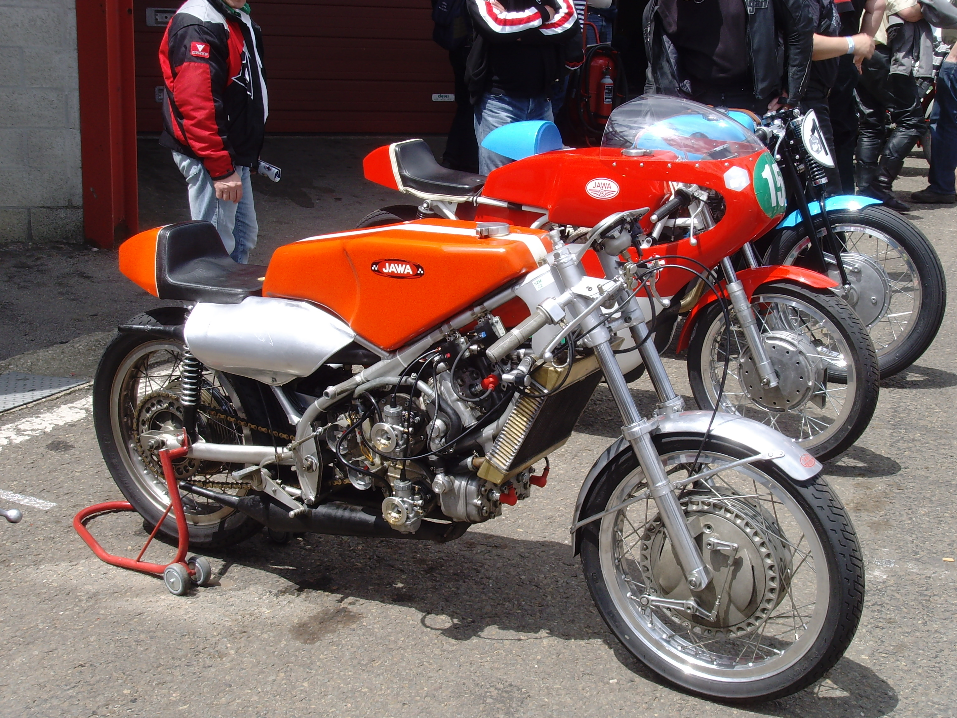 Jawa 350 V4 GP type 673, Bill Ivy, 1969